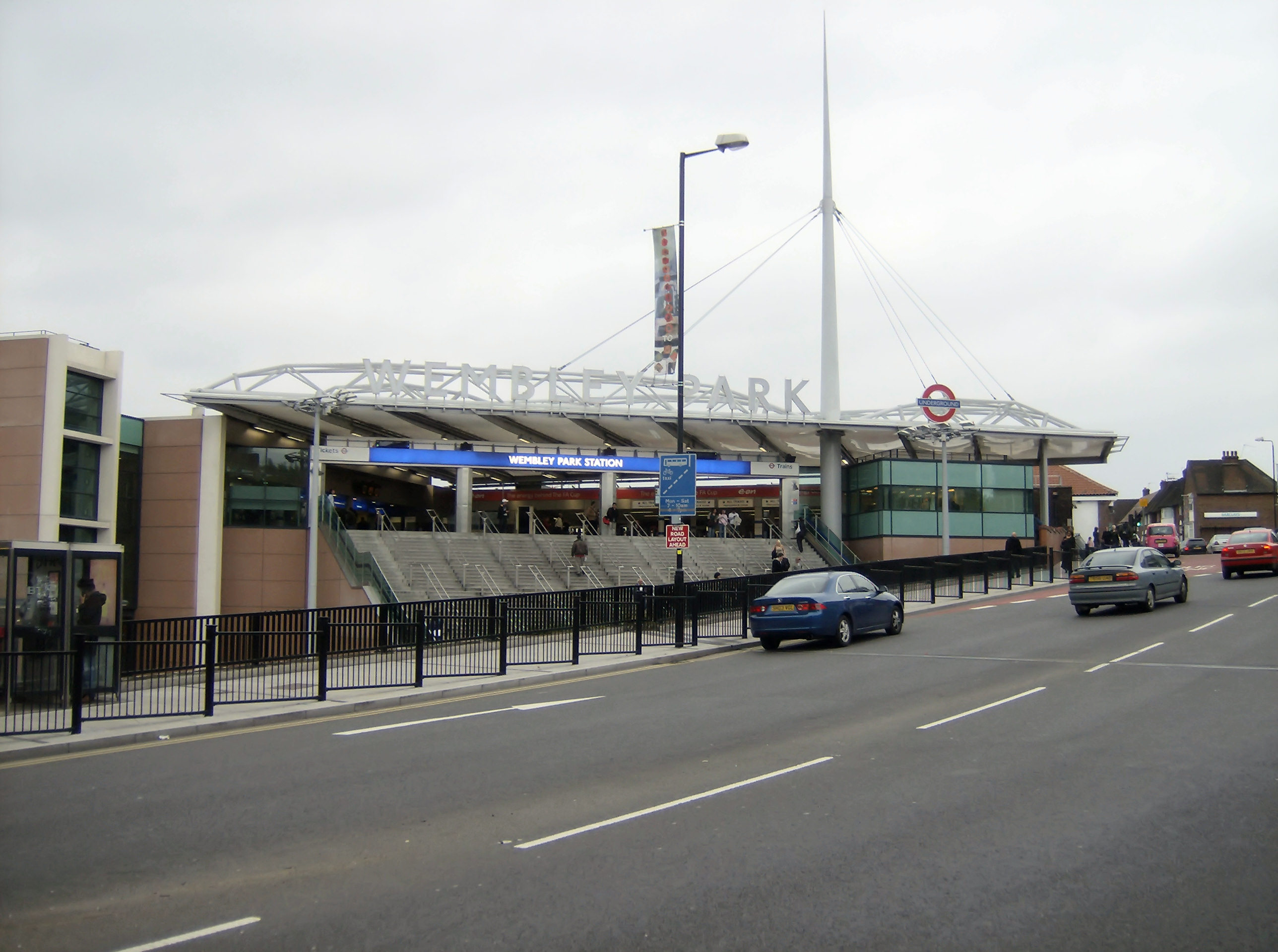 The extension to Wembley Park tube station, designed for the 2007 opening of the second Wembley Stadium. The previous station building, built in 1923, can be seen at Image:Old Wembley Park tube station building.jpg.